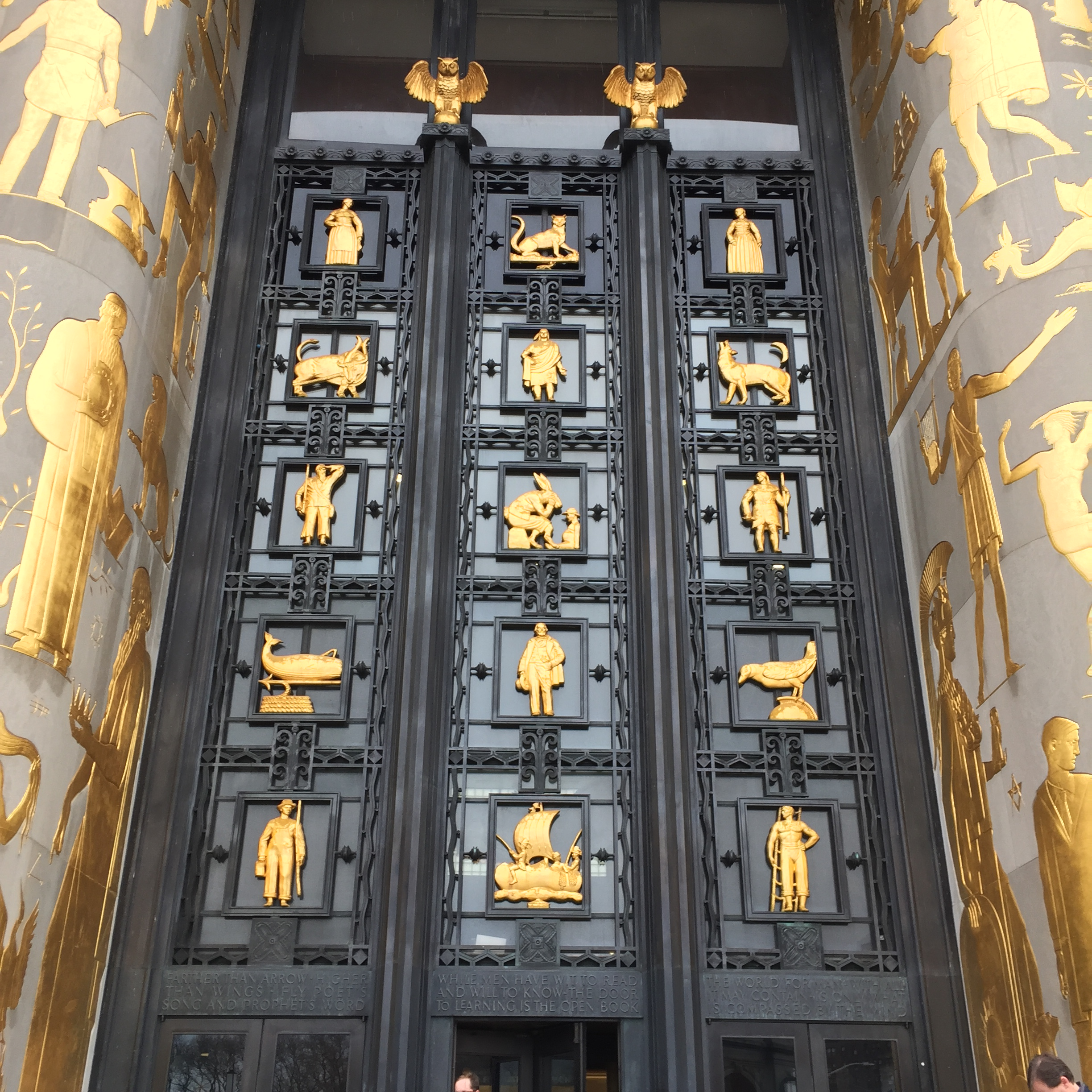 Brooklyn Public Library Central Library gold entrance